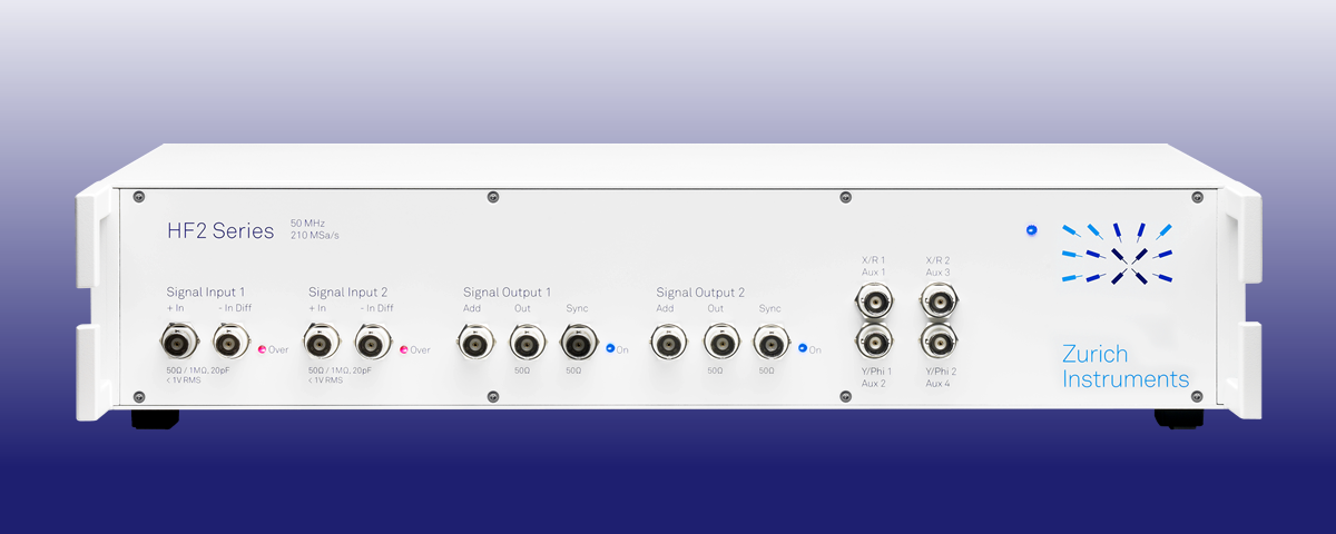 This image displays the HF2LI lock-in amplifier with blue background